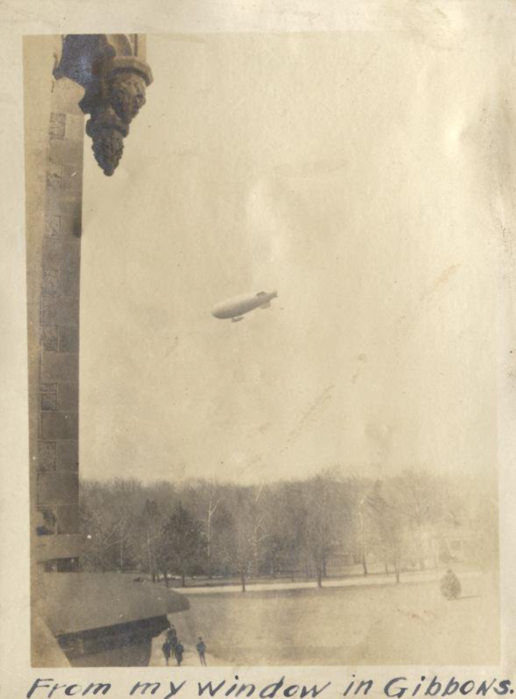 A photo of a blimp, taken from a window of Gibbons Hall at The Catholic University of America during the 1917-18 school year.